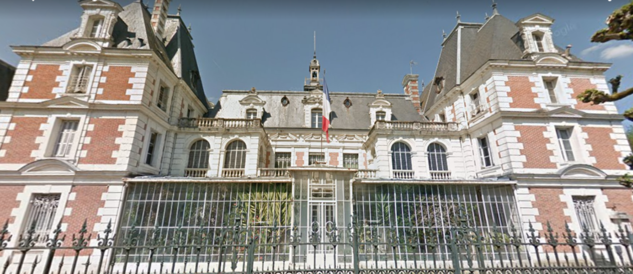 North looking view from the road, of Château d'Armaille's southern aspect and imposing architecture, prior to being handed back to private use.